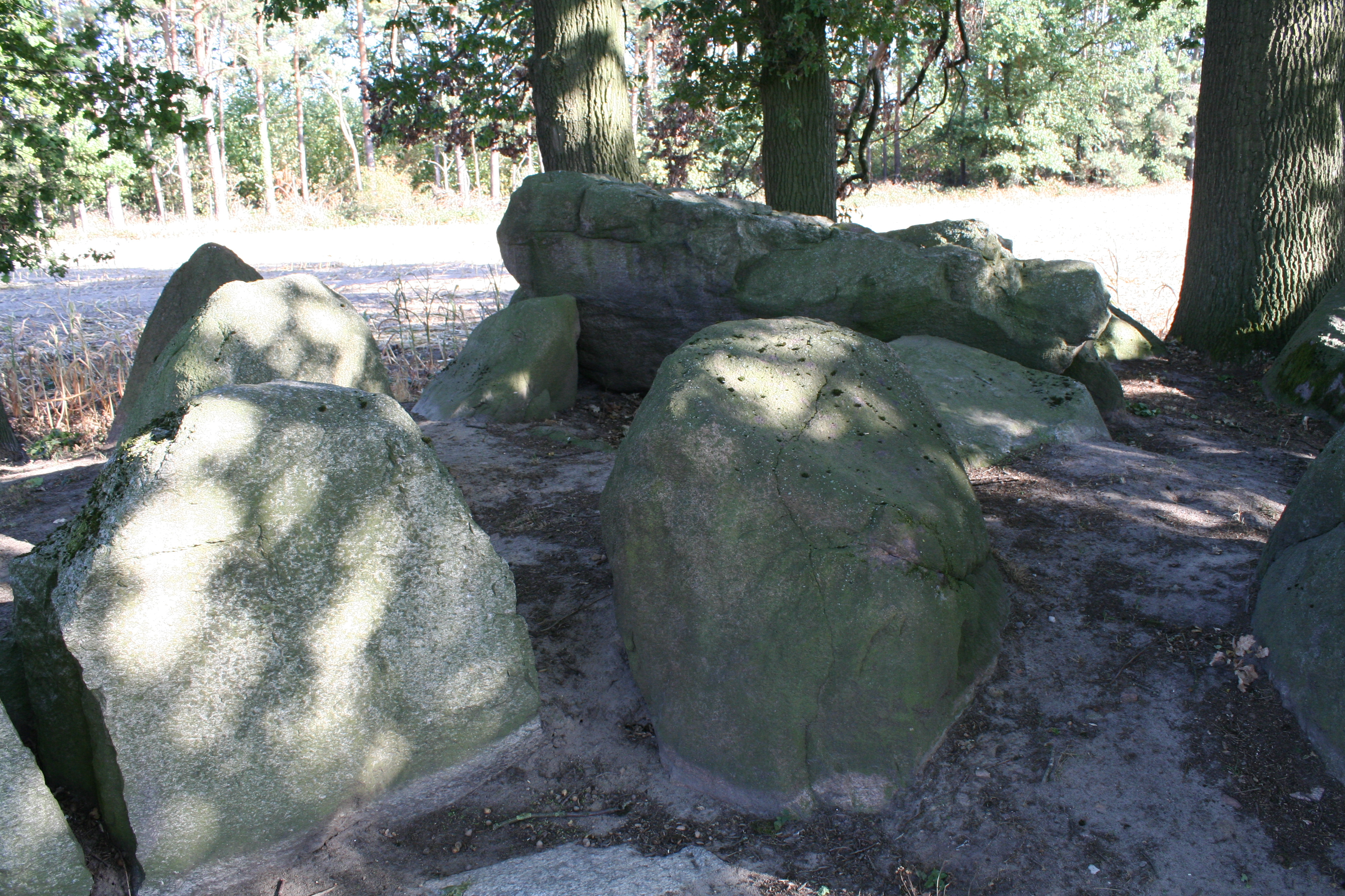 Megalithic tomb Diesdorf 1